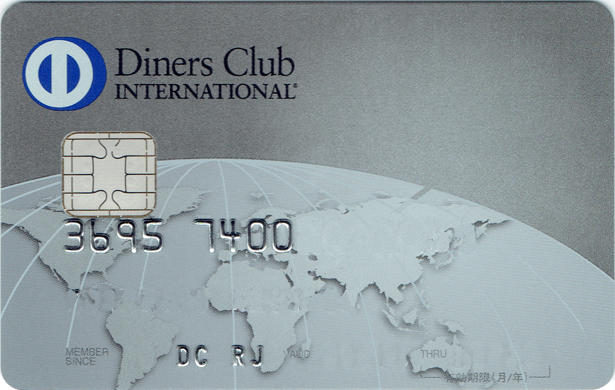 Diners Club Regular Card with IC, issued in Japan, 2016 한국어 (조선): 일본 발행의 다이너스 클럽 IC있는 일반 카드 (2016 년)